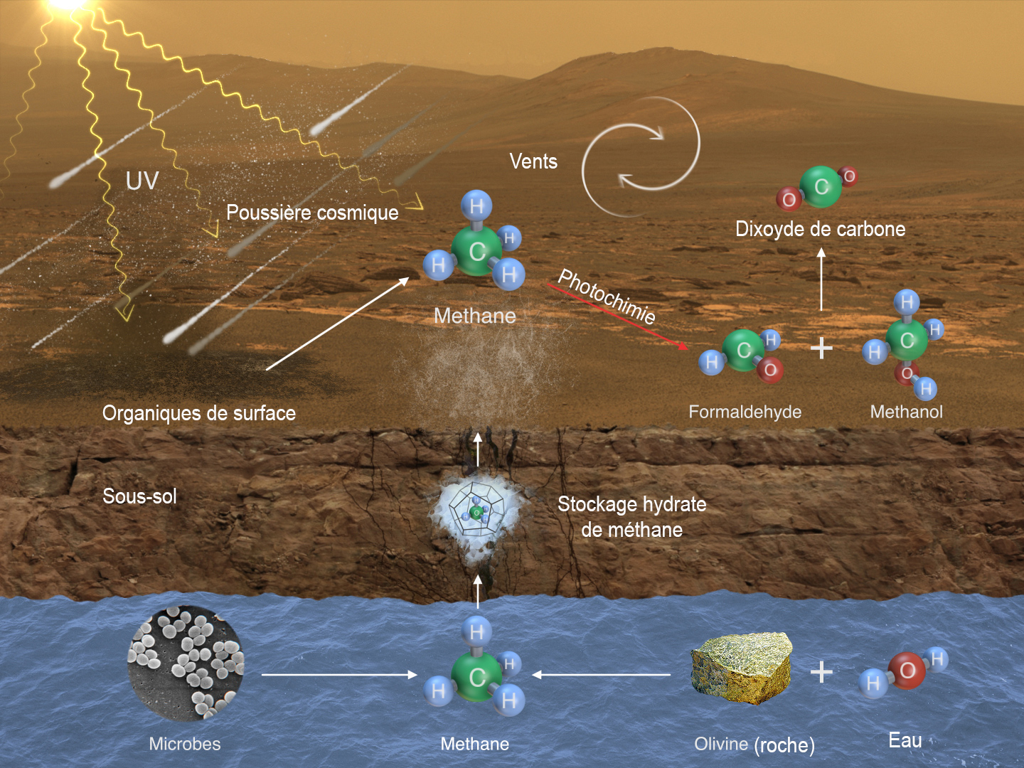 This image illustrates possible ways methane might be added to Mars' atmosphere (sources) and removed from the atmosphere (sinks). NASA's Curiosity Mars rover has detected fluctuations in methane concentration in the atmosphere, implying both types of activity occur on modern Mars. (french labels)